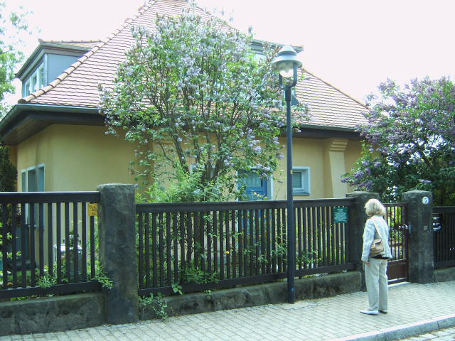 Dresden. Home of Heinz-Günter Bongartz in Loschwitz